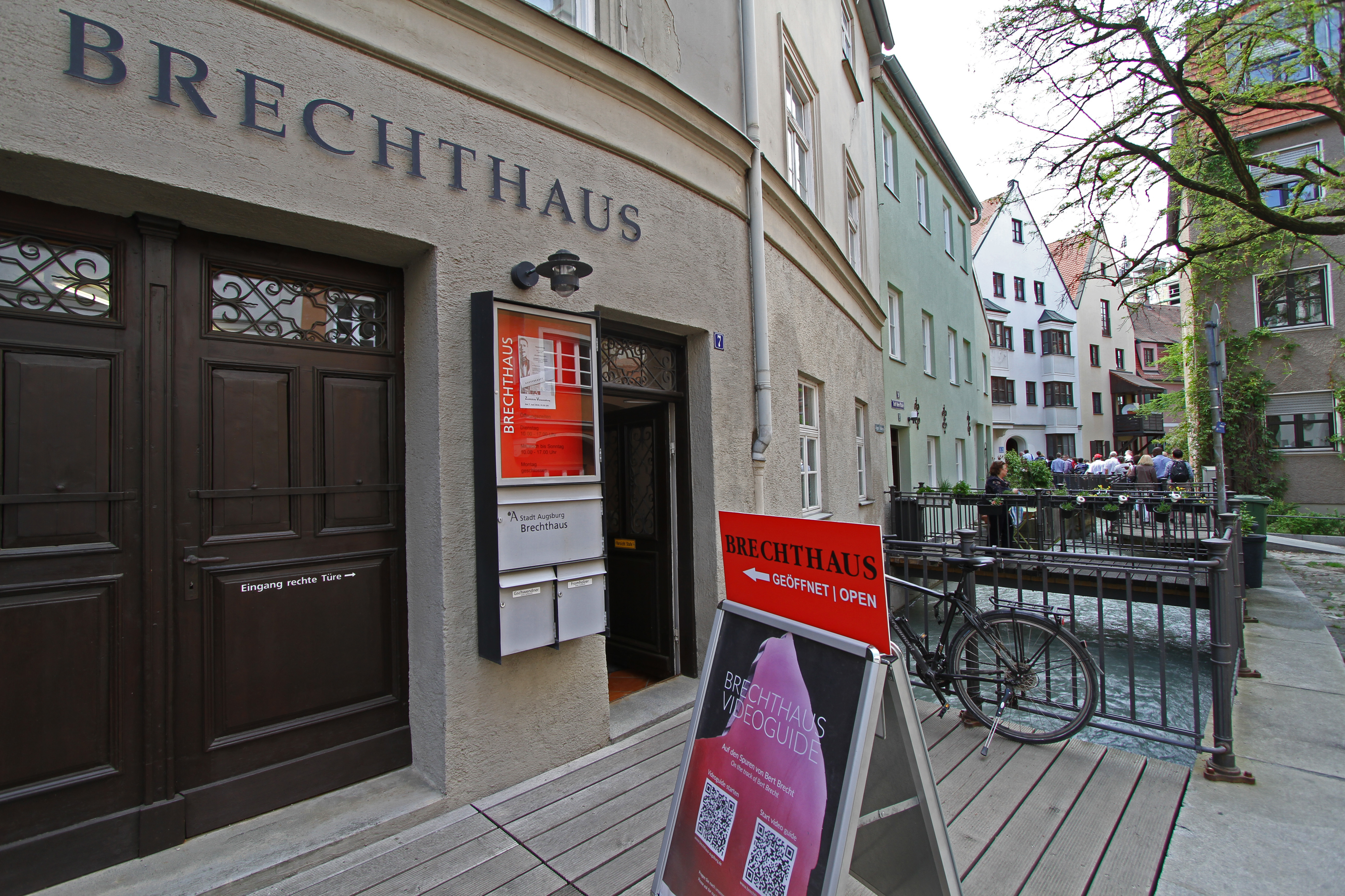 Birthplace of Bertolt Brecht in Augsburg, Auf dem Rain 7